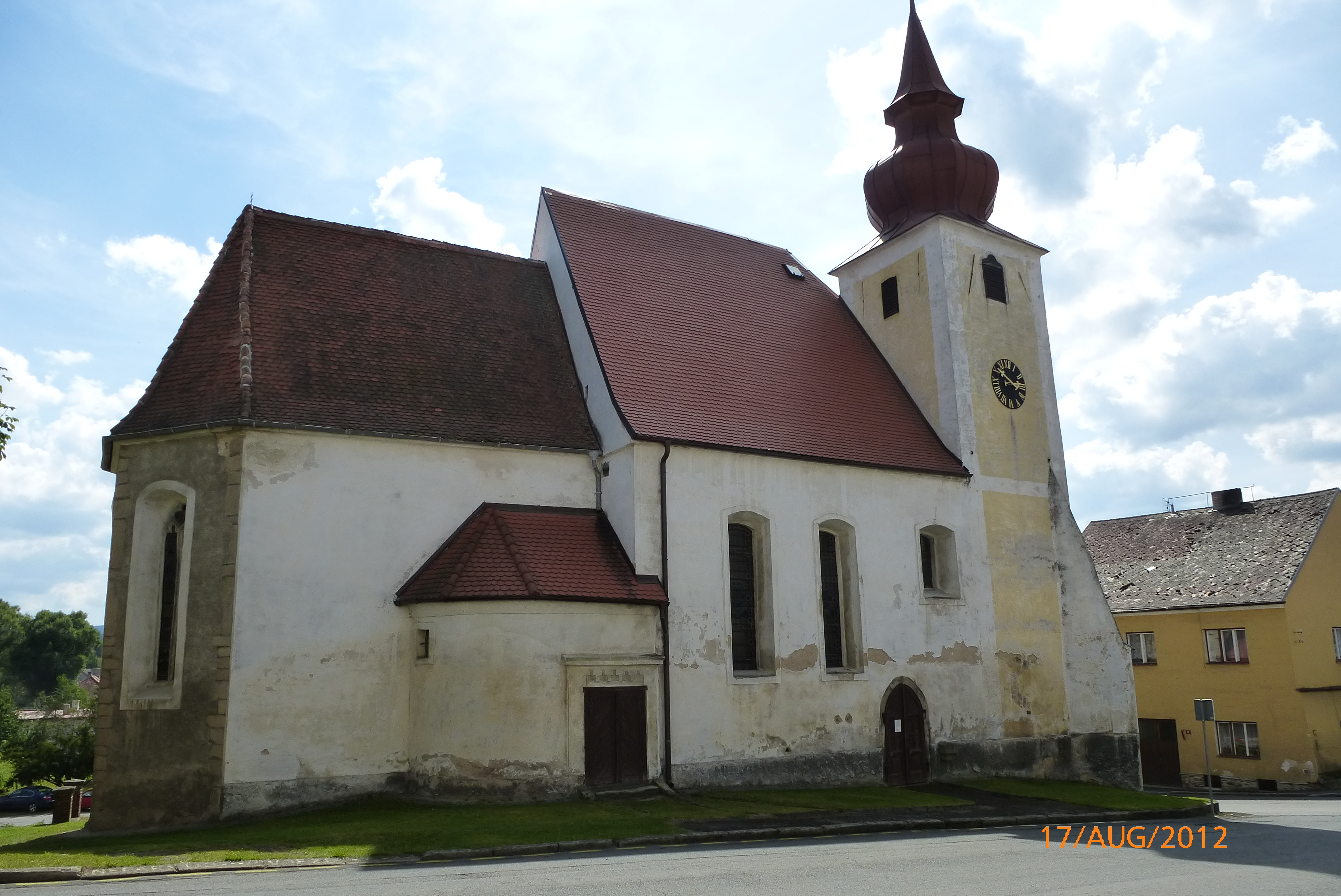 Poběžovice Curch